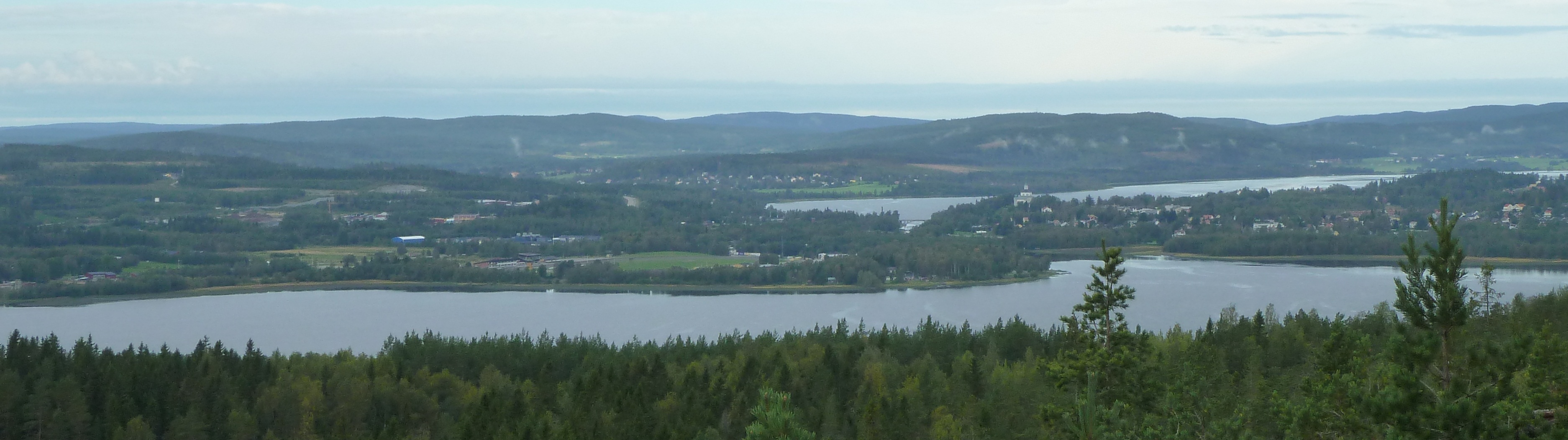 Veckefjärden (in the foreground), Själevad church and Happstafjärden (in the background). Moälven near Örnsköldsvik, Sweden.